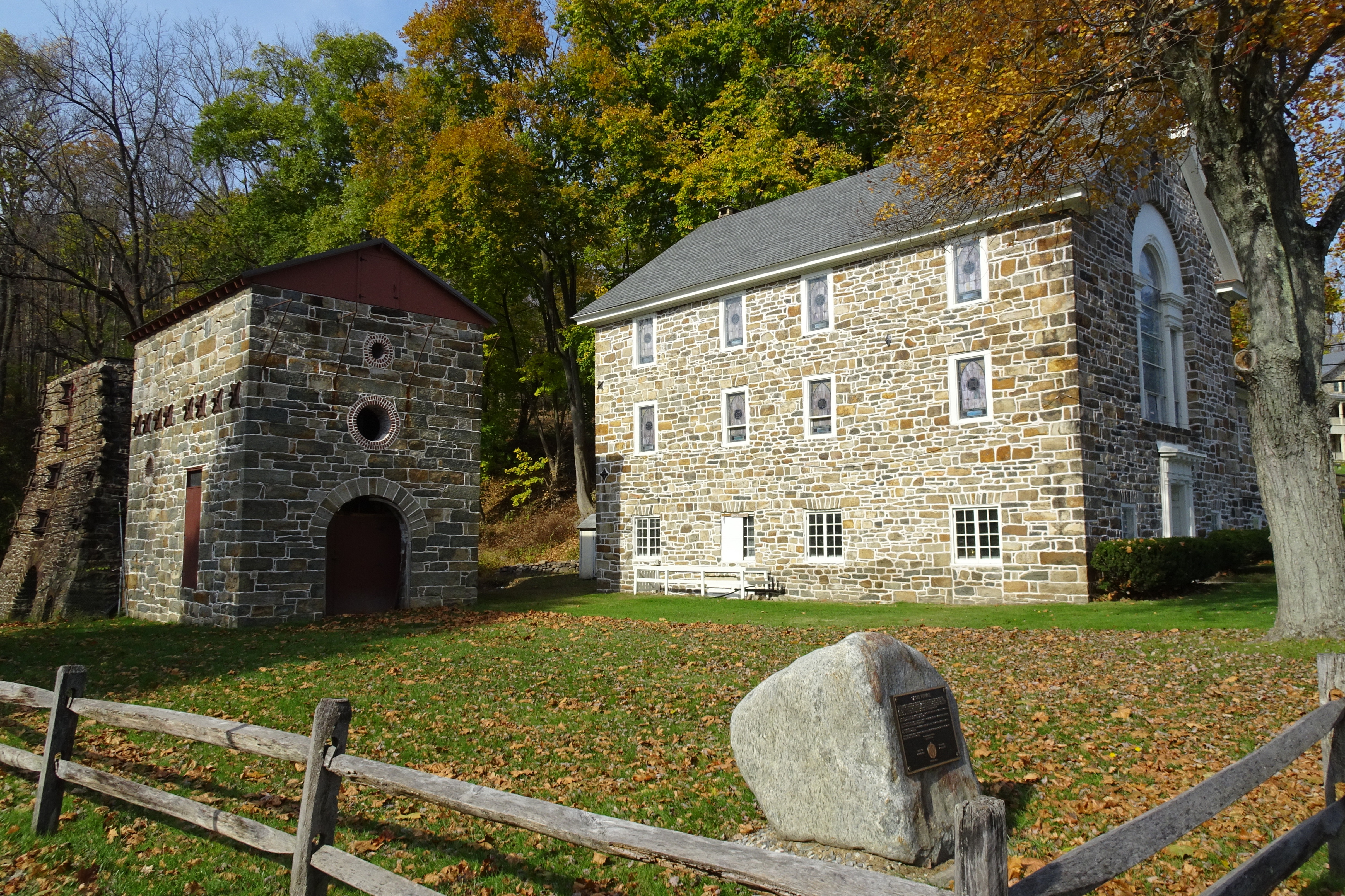 Oxford Furnace and the Oxford Colonial United Methodist Church in Oxford Township, New Jersey. Contributing properties.